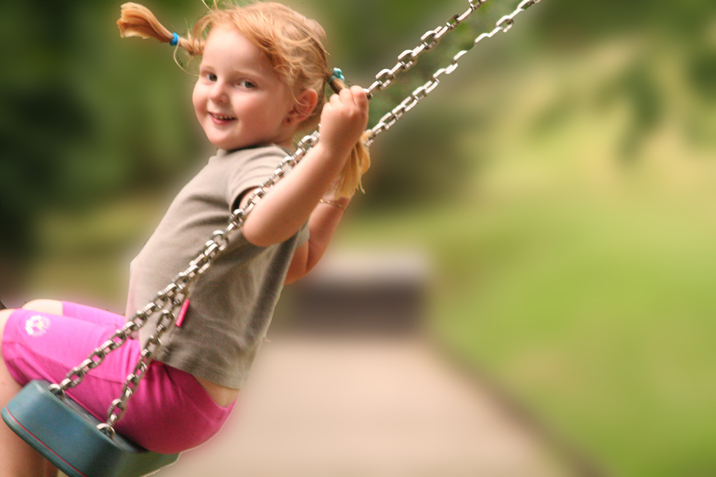 Smile to the world..the world will simle back at you